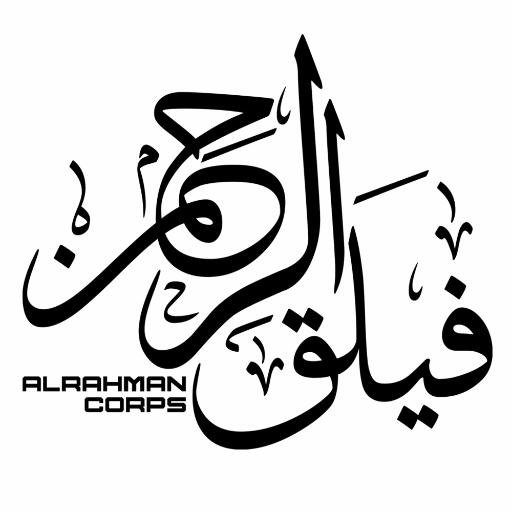 The calligraphic logo of the Rahman Corps.